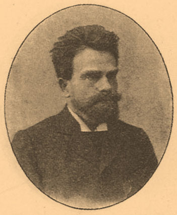 Illustration from Brockhaus and Efron Encyclopedic Dictionary (1890—1907)